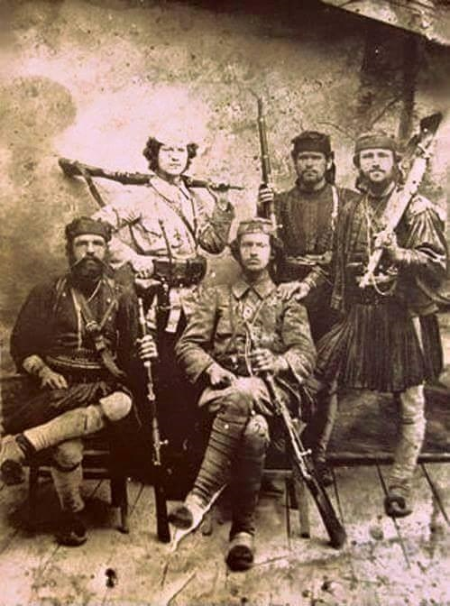 Myftar Butka, Mihal Ballkameno, Thoma Pituli, Spiro Ballkameno, Ghani Butka, 1903